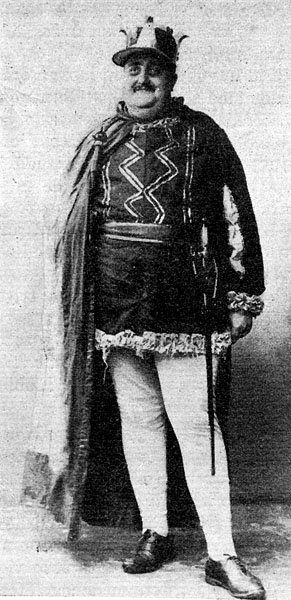 Sam Ask as price carnival in Lund 1904.